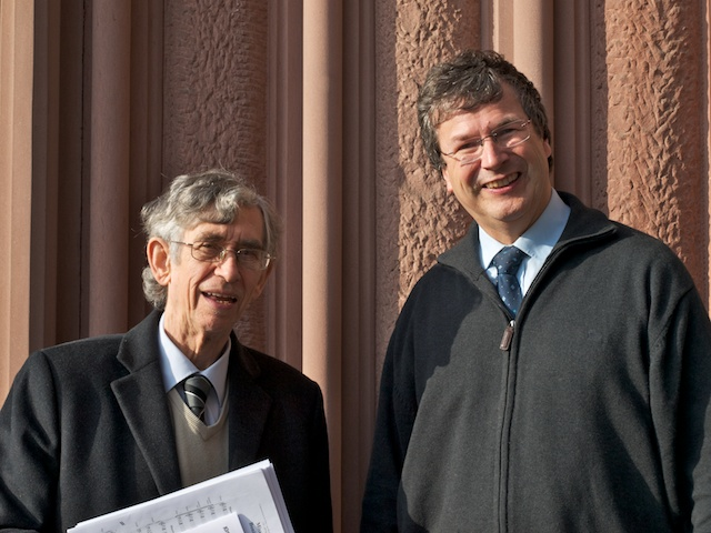 Colin Mawby and Gabriel Dessauer in front of St. Bonifatius church, Wiesbaden, Germany.